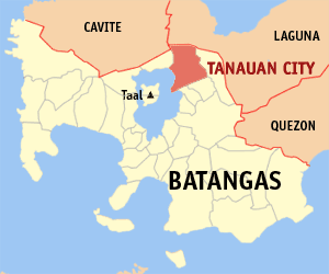 Map of Batangas showing the location of Tanauan City